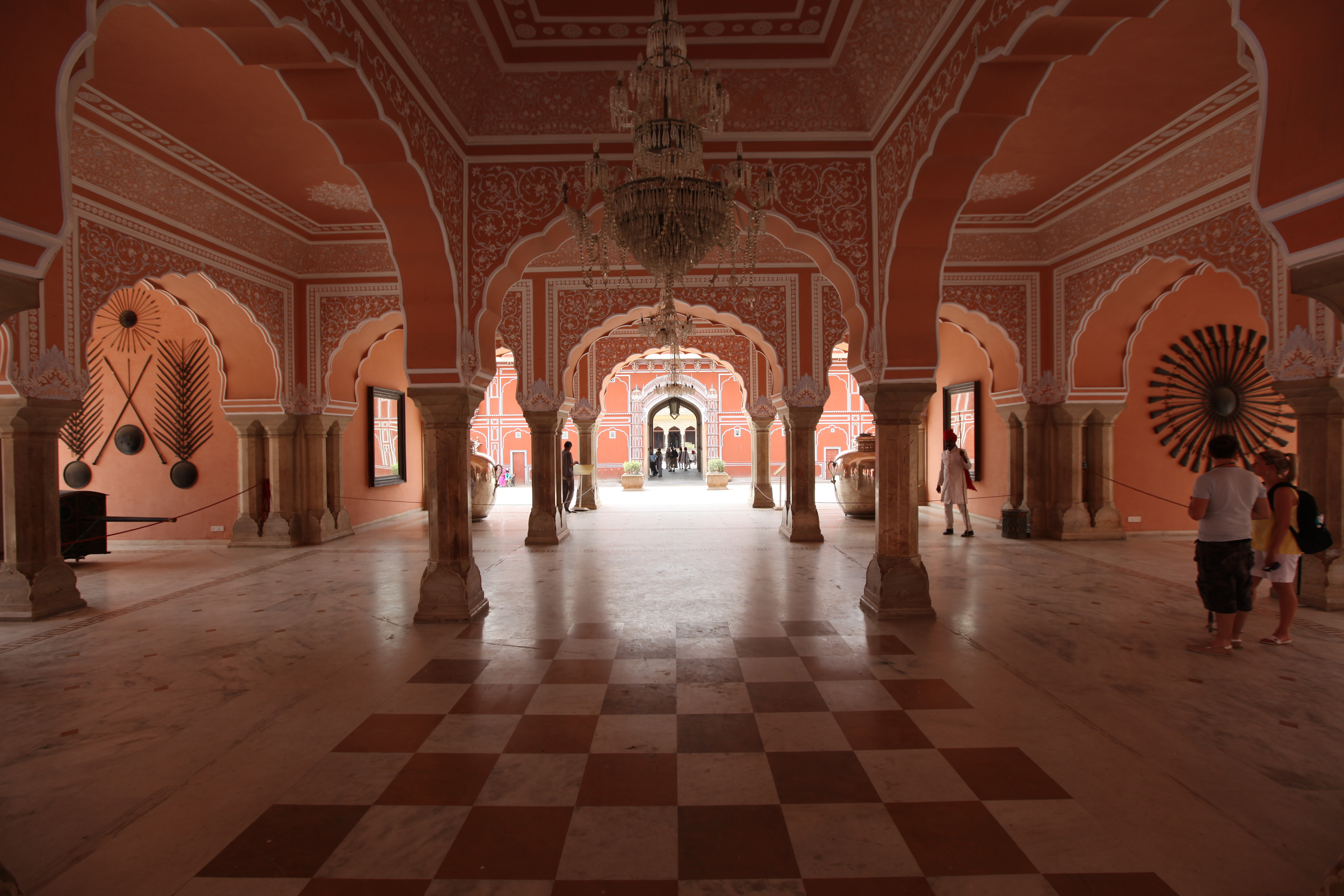 City Palace, Jaipur